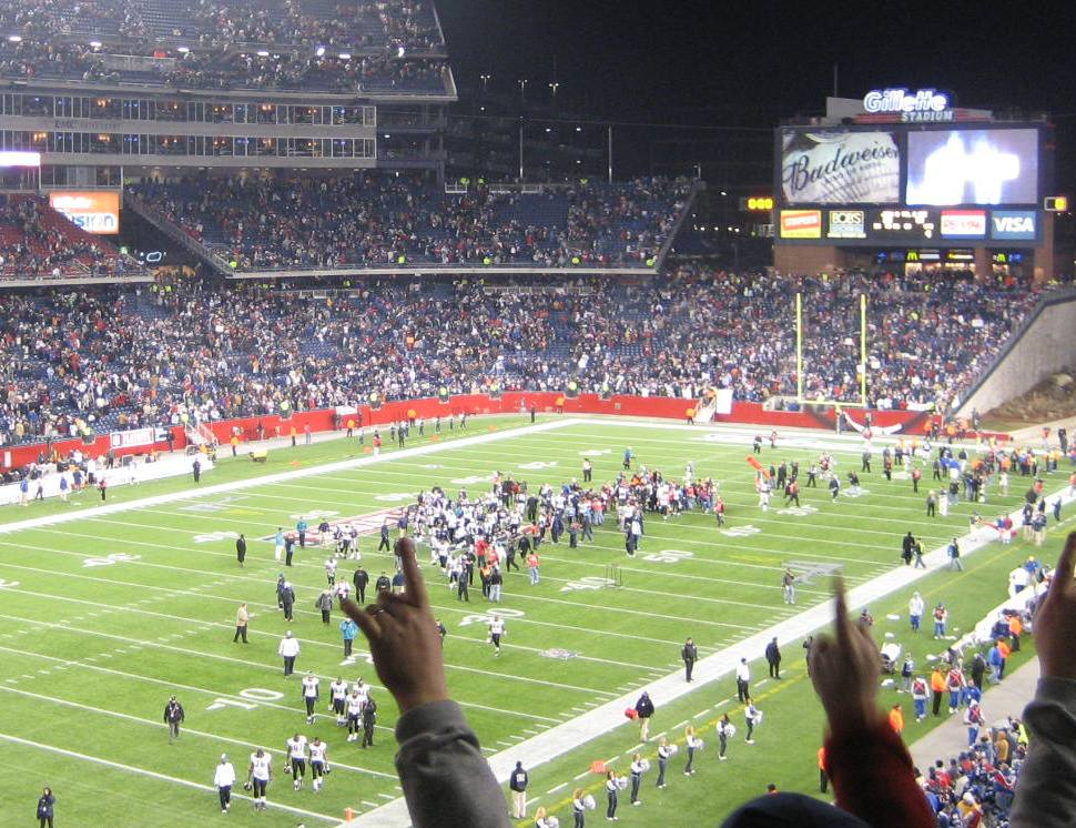 Celebrating the Patriots' win over Jacksonville in the 2008 playoffs.